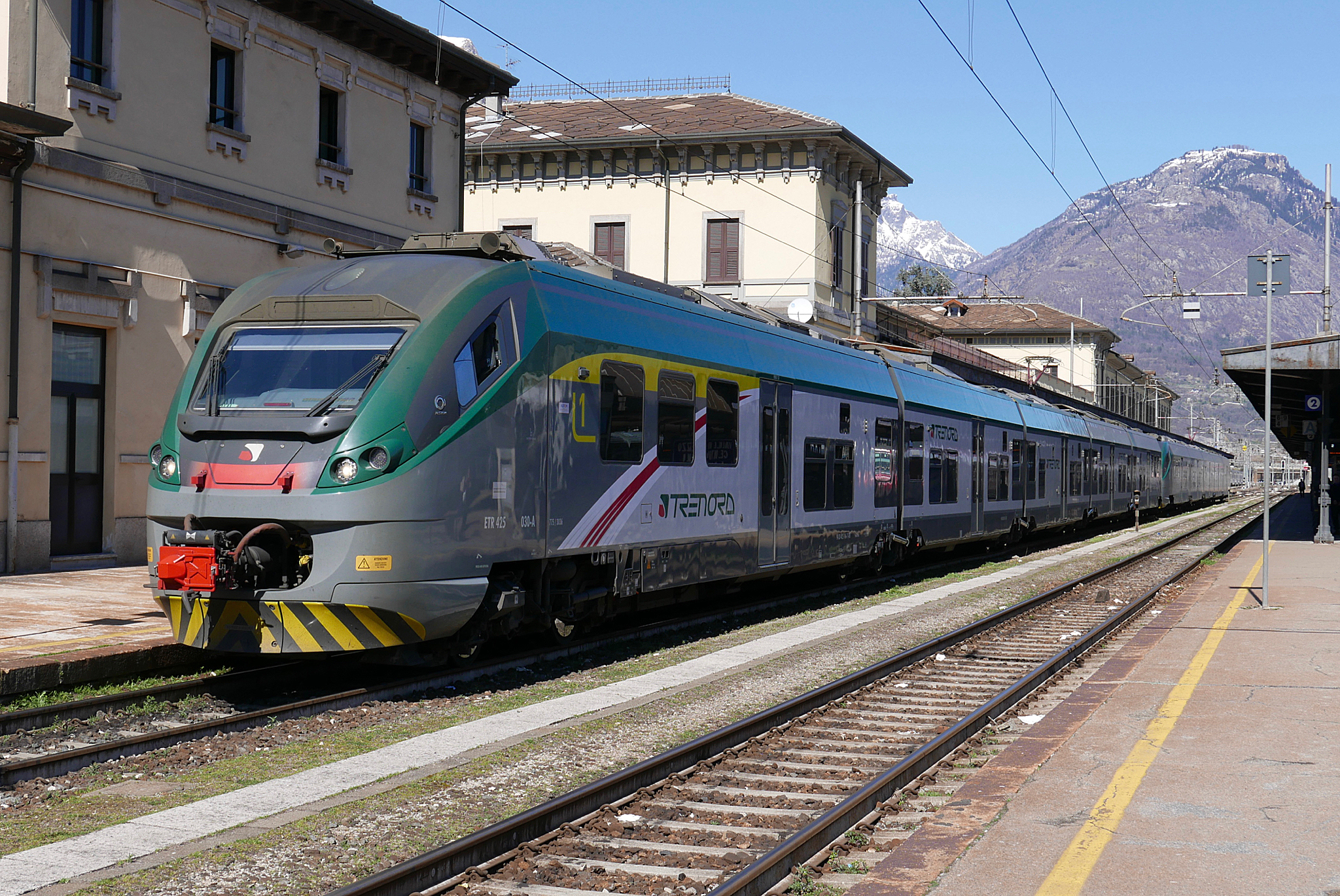 Trenord ETR 425 030 at Domodossola train station as RegioExpress 2151 to Milano C.le.